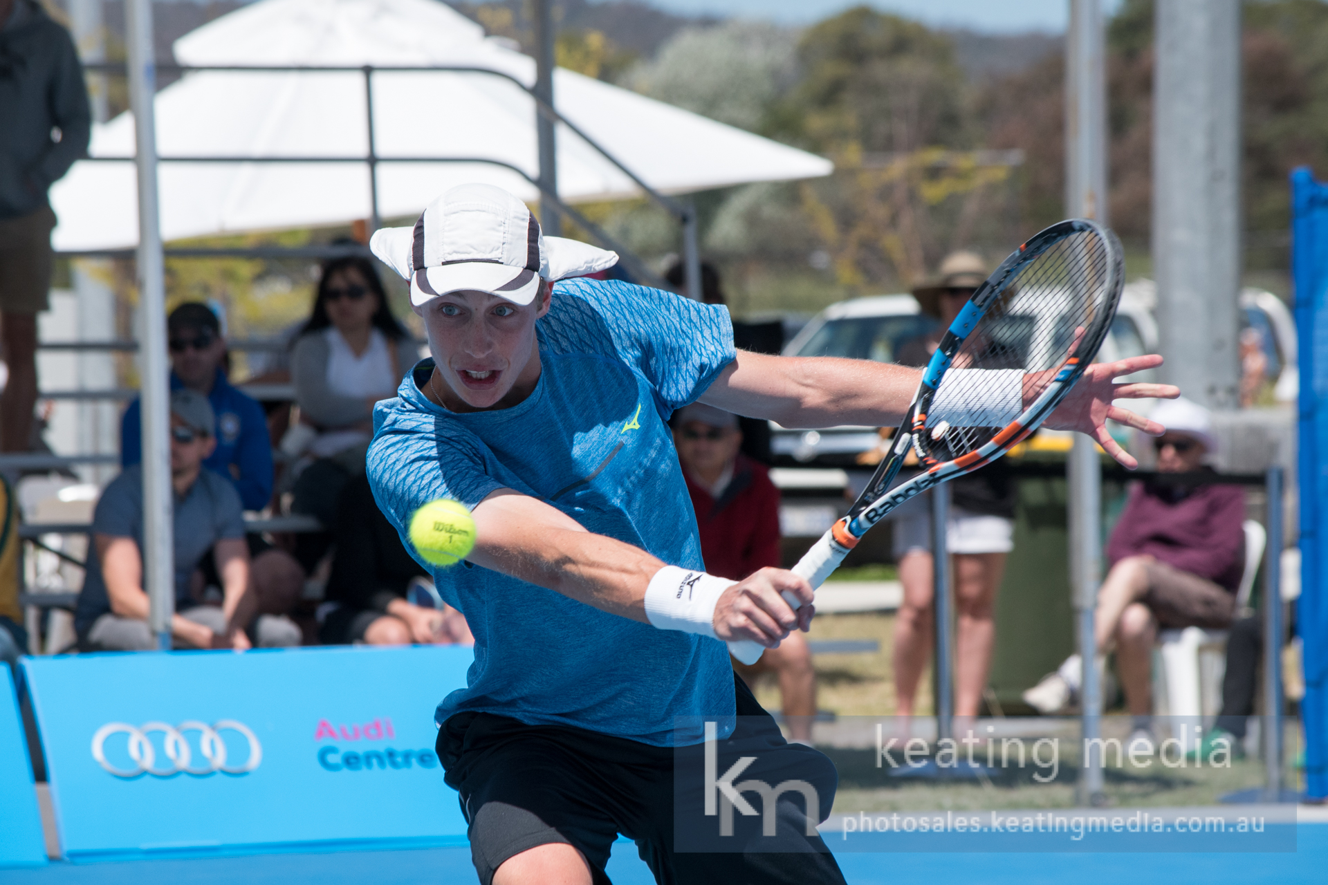 Marc Polmans plays a volley during the final of the Canberra International ATP Challenger event.